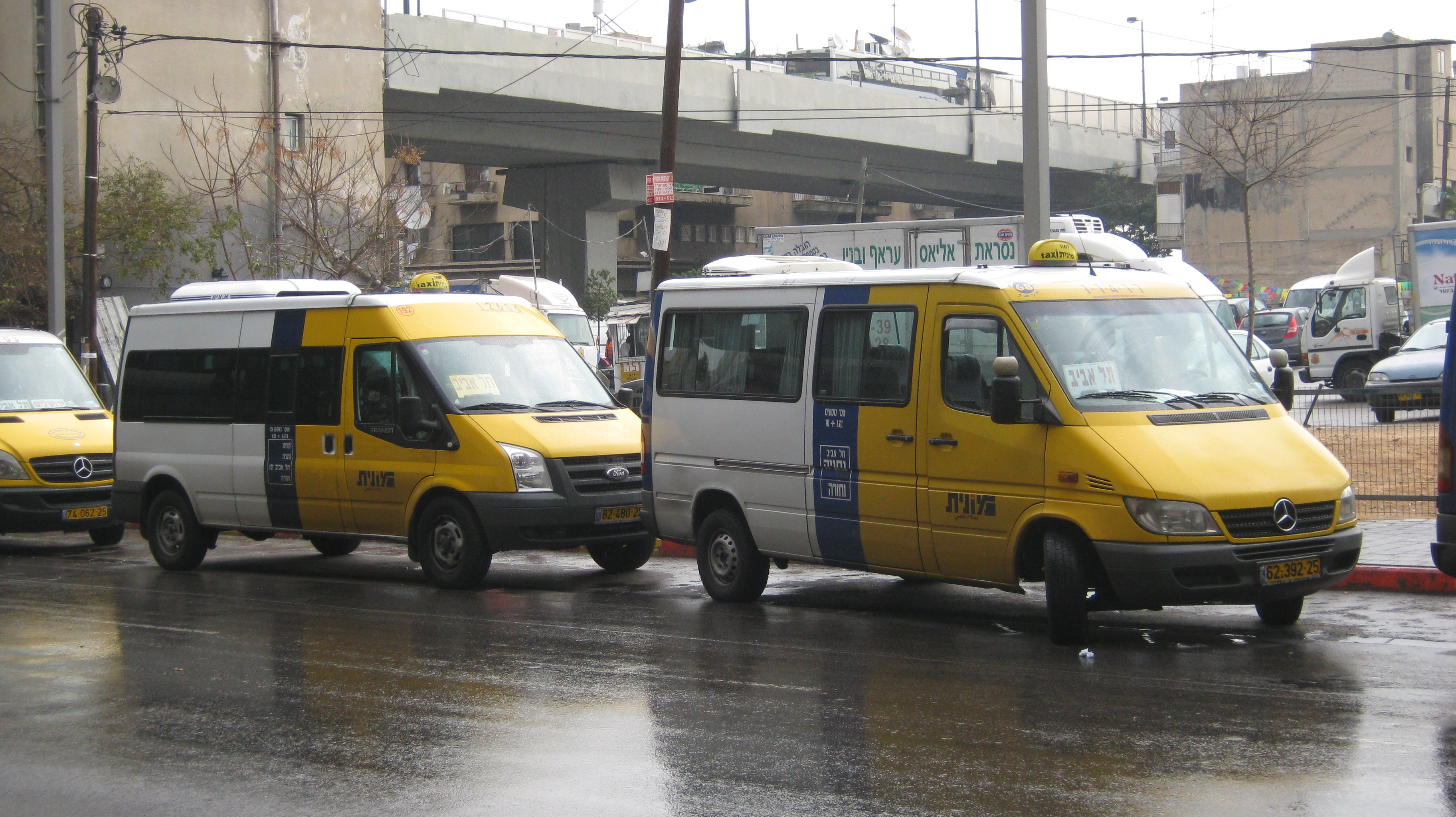 Sherut